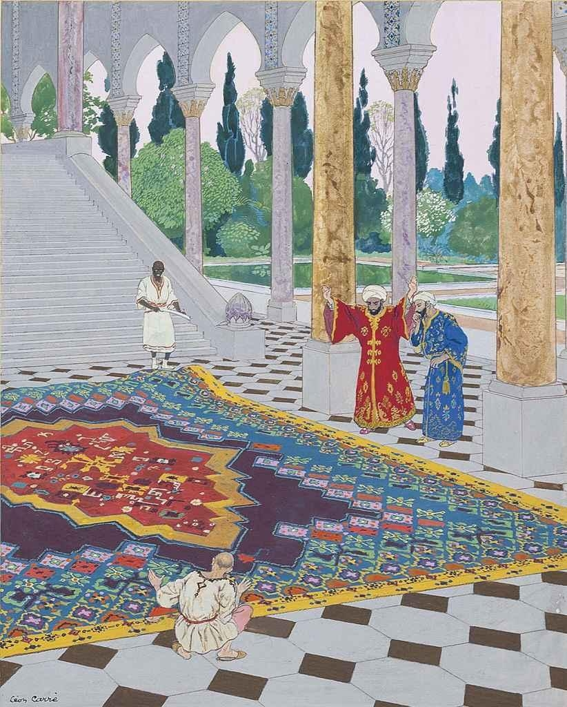 A magnificant carpet was spread out, from 'The Story of Baïbars and the Police Captains'